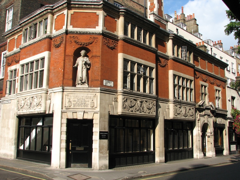 Thomas More's house in London, photographed by Mistvan.